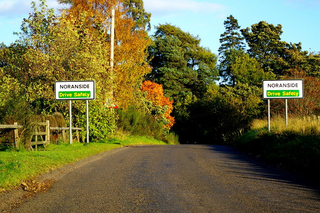 Noranside Hamlet from Kirriemuir